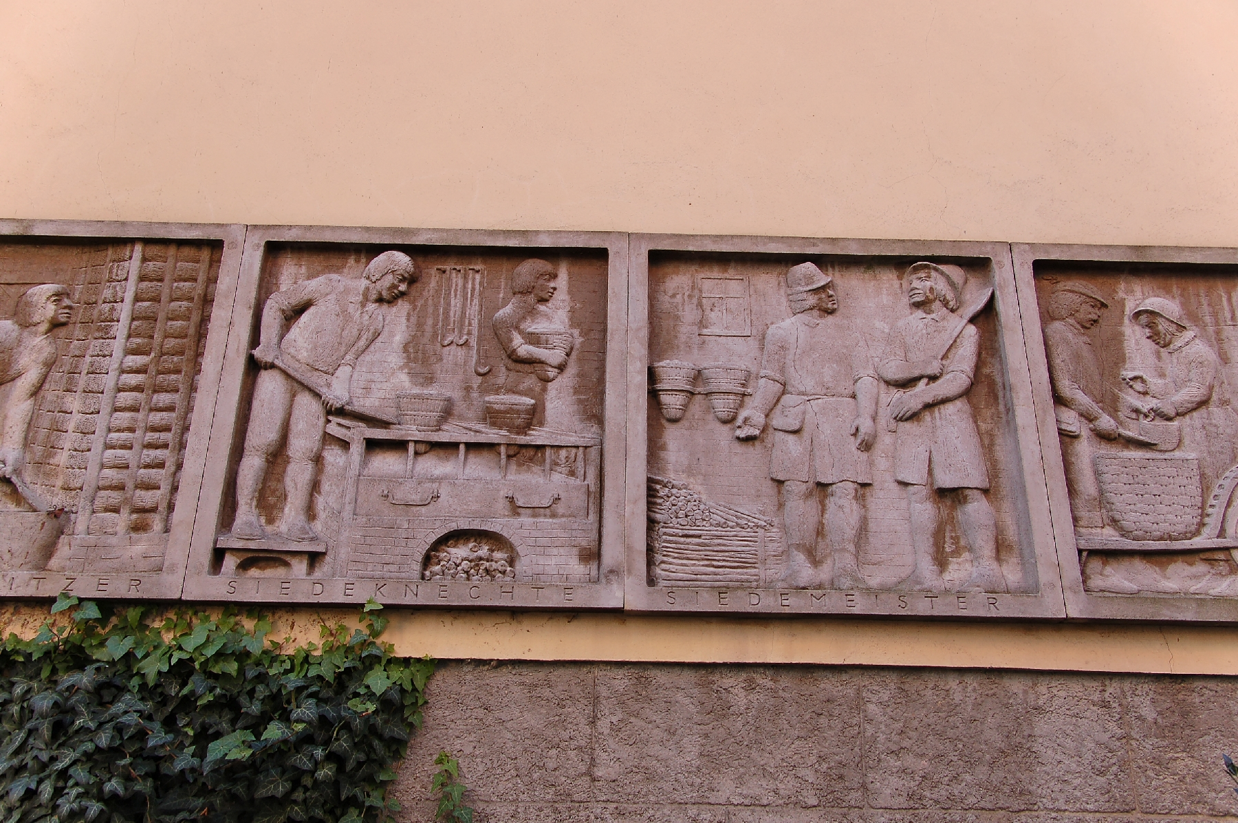 Bad Salzungen 2011